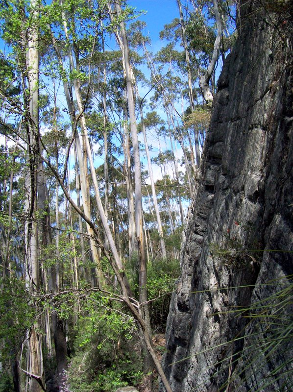 Eucalyptus fraxinoides and sandstone at Mount Imlay, Australia